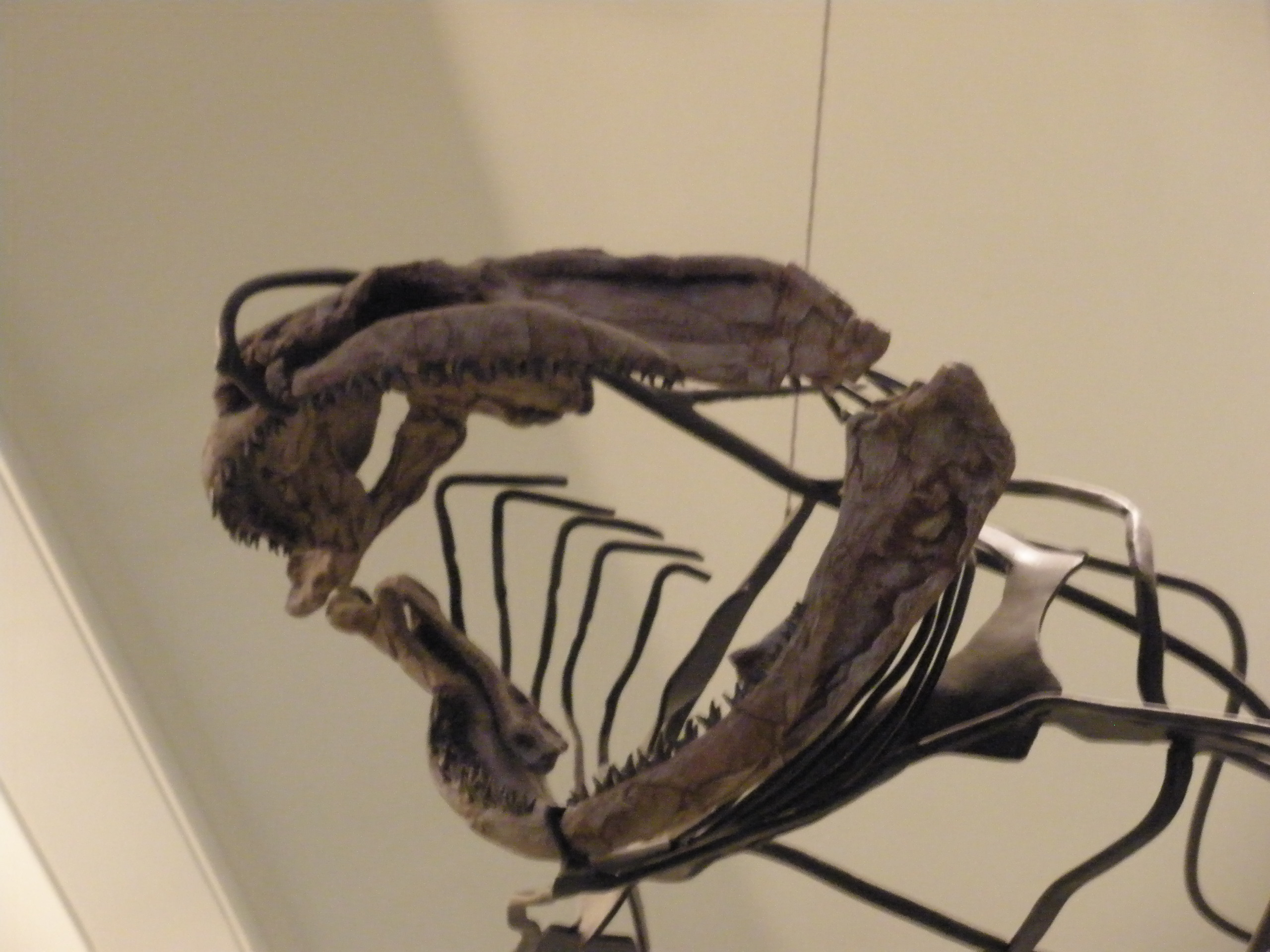 Skeleton of Orthacanthus, a fossil shark